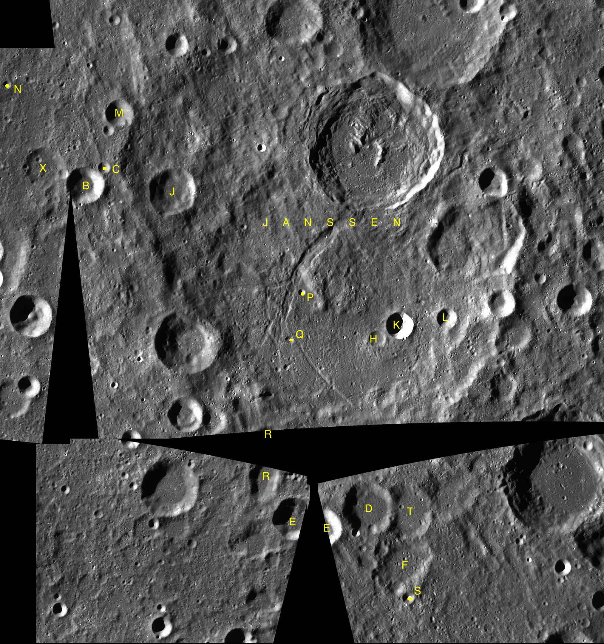 Parts of the charts LAC-113, LAC-114, LAC-127, LAC-128 used for the presentation